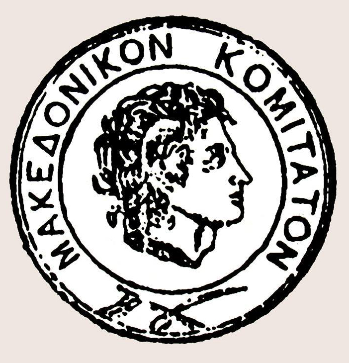 Seal of Greek macedonian cometee